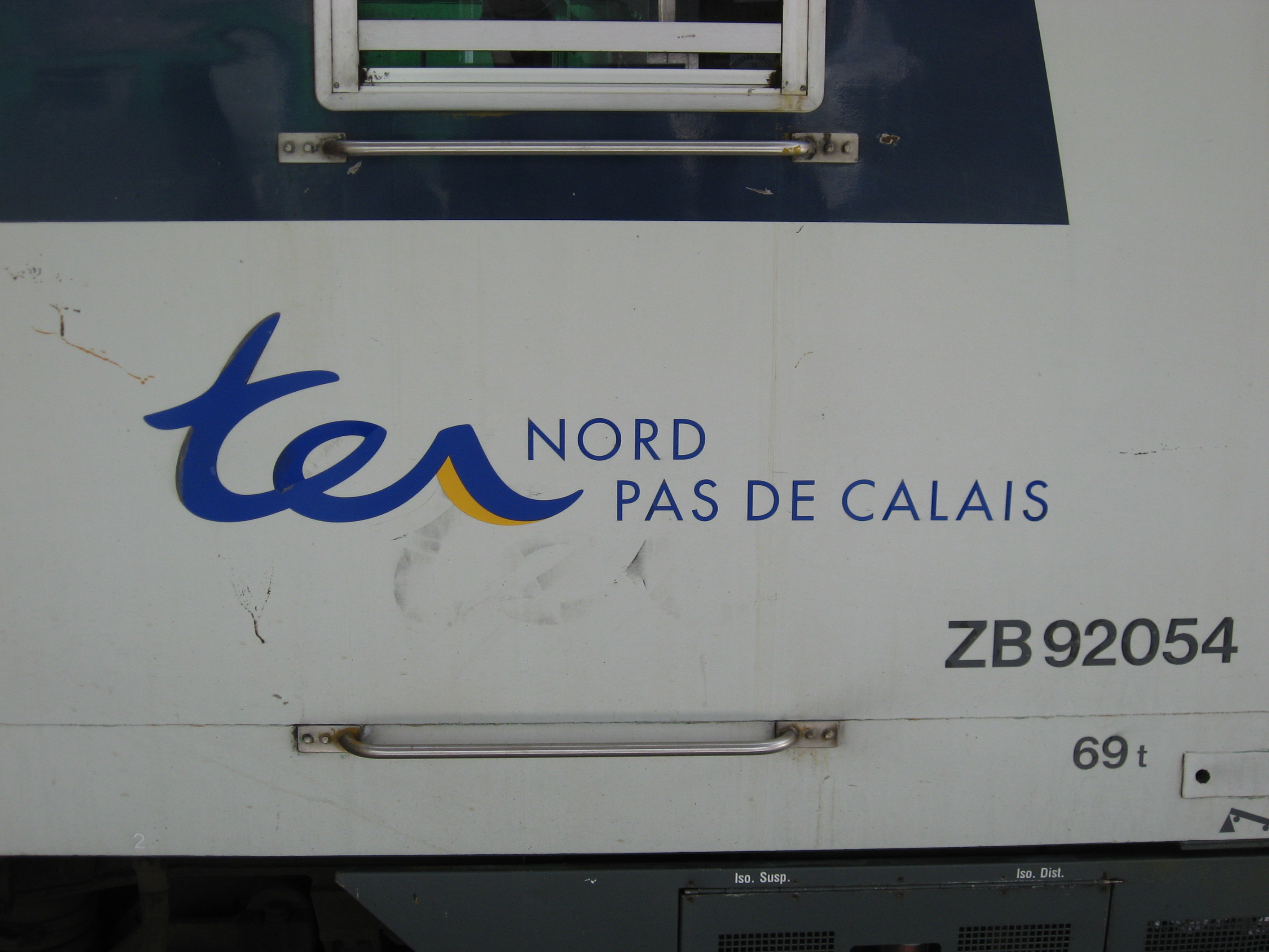 TER Nord-Pas-de-Calais logo on the regional trains.